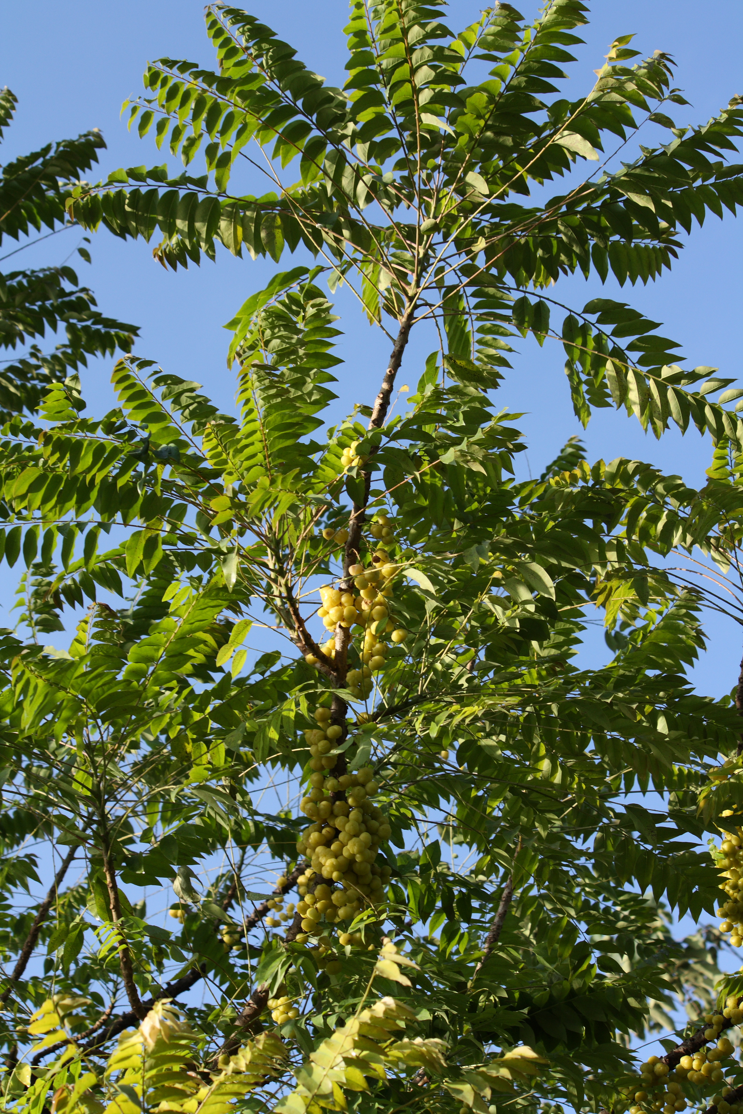 Star Gooseberry tree with fruits and leaves